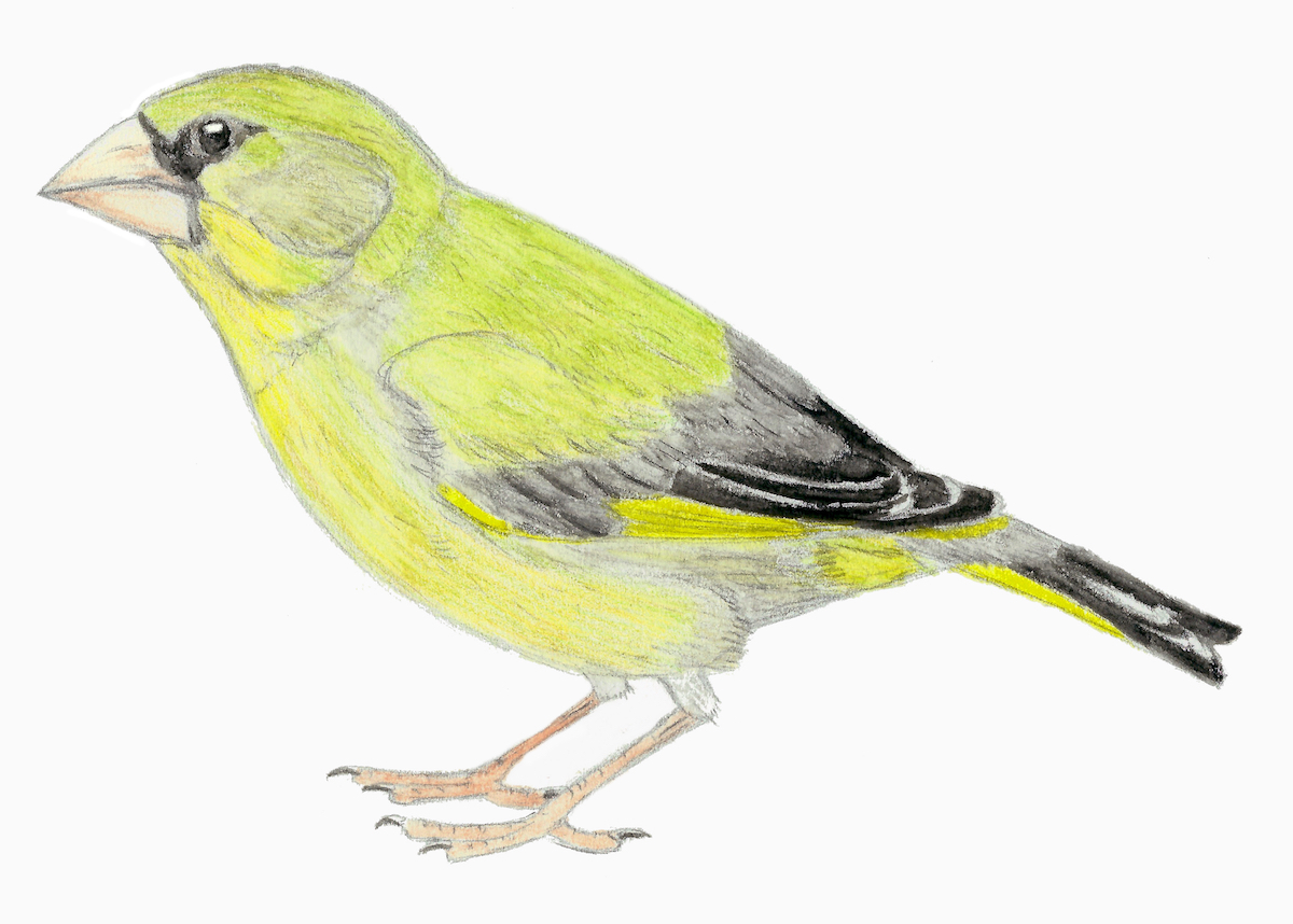 Life restoration of the Trias greenfinch (Carduelis triasi) an extinct species of fringillid that lived in the island of La Palma (Canary Islands) during the Pleistocene and Holocene epochs